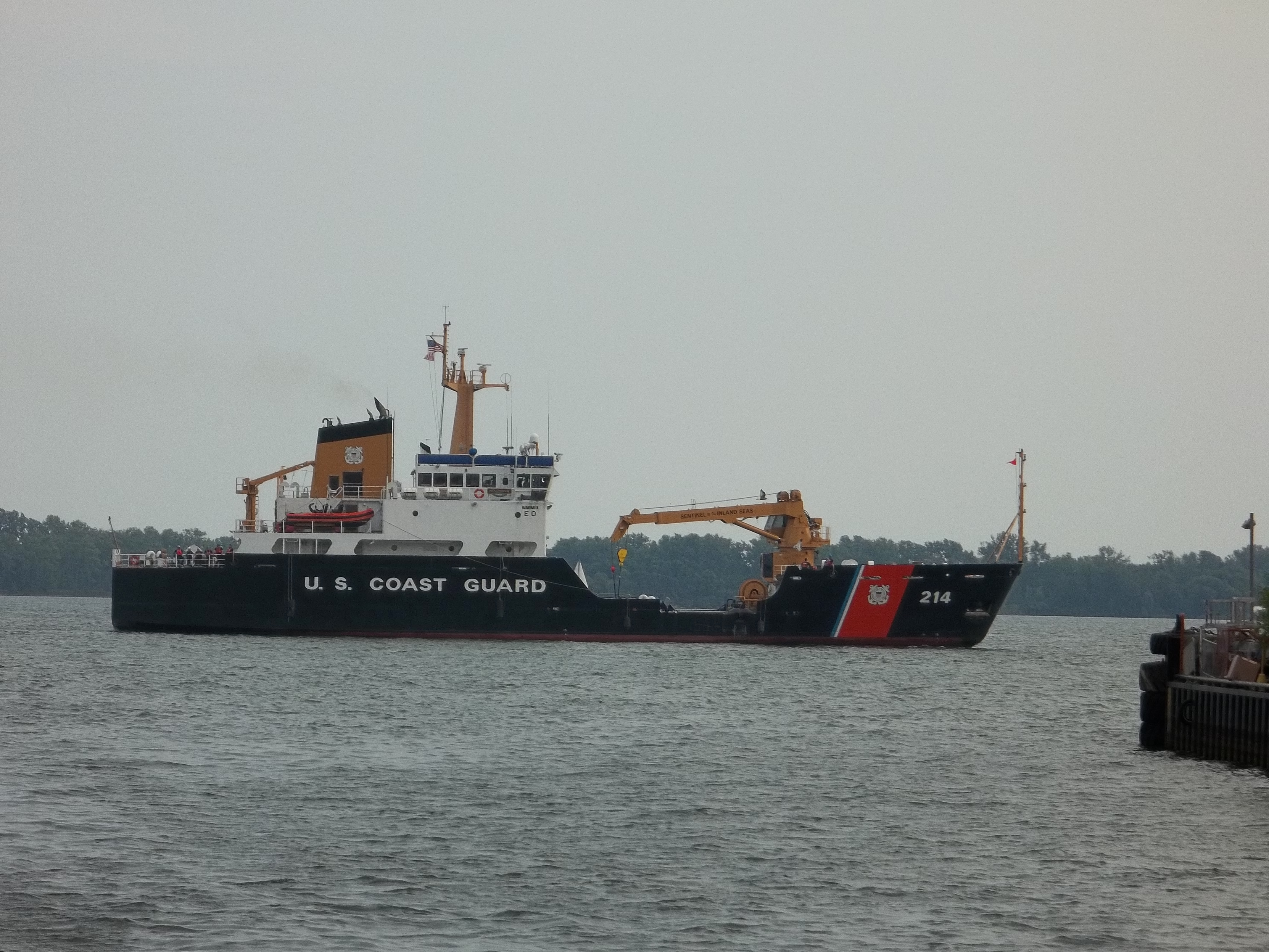 USCGC Hollyhock in Toronto